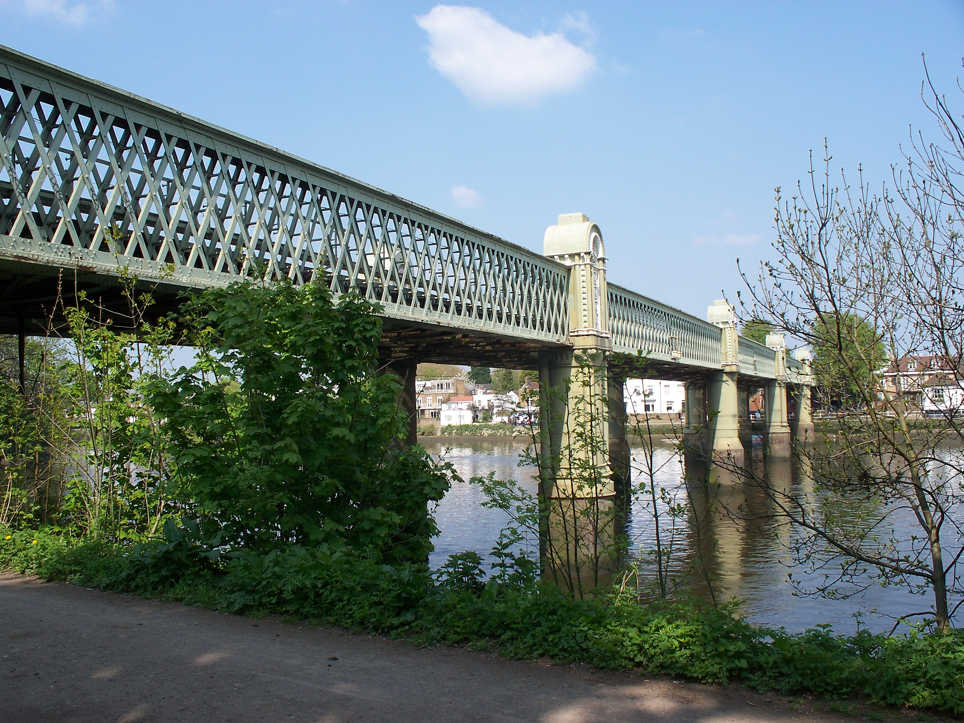 Kew Railway Bridge, Kew, London. Photograph taken in a public location in the UK of a building on permanent public display, and exempt from copyright under Section 62 of the Copyright Designs & Patents Act 1988 ("it is not an infringement of copyright to film, photograph, broadcast or make a graphic image of a building, sculpture, models for buildings or work of artistic craftsmanship if that work is permanently situated in a public place or in premises open to the public")